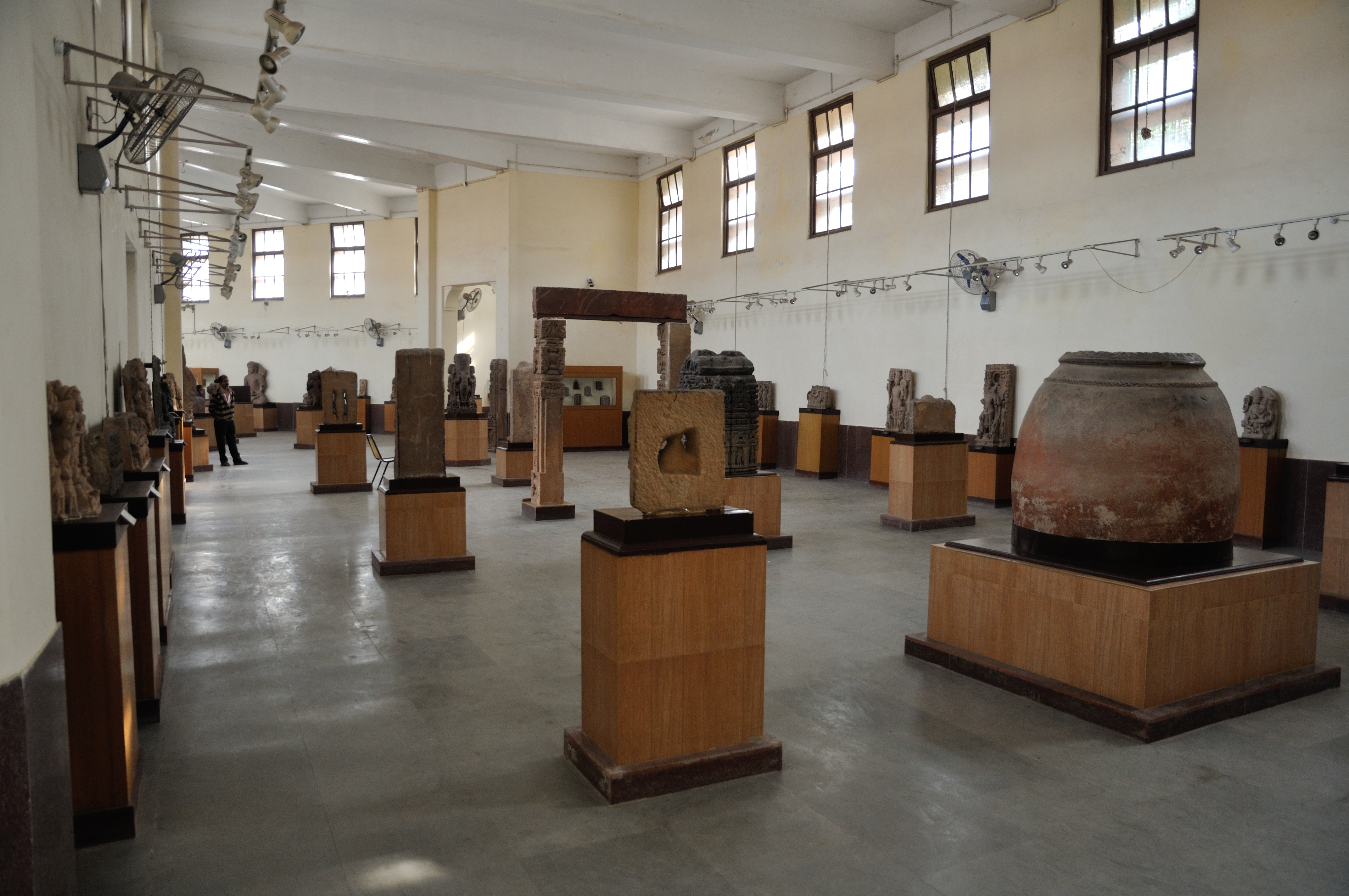 This gallery is a part of the Government Museum, (hi: Rashtriya Sangrahalaya) formerly The Curzon Museum of Archaeology, Museum Road or Murari Lal Rajpal road, Dampier Nagar, Mathura, Uttar Pradesh, India. This museum is administrating by the State Government of Uttar Pradesh of India.